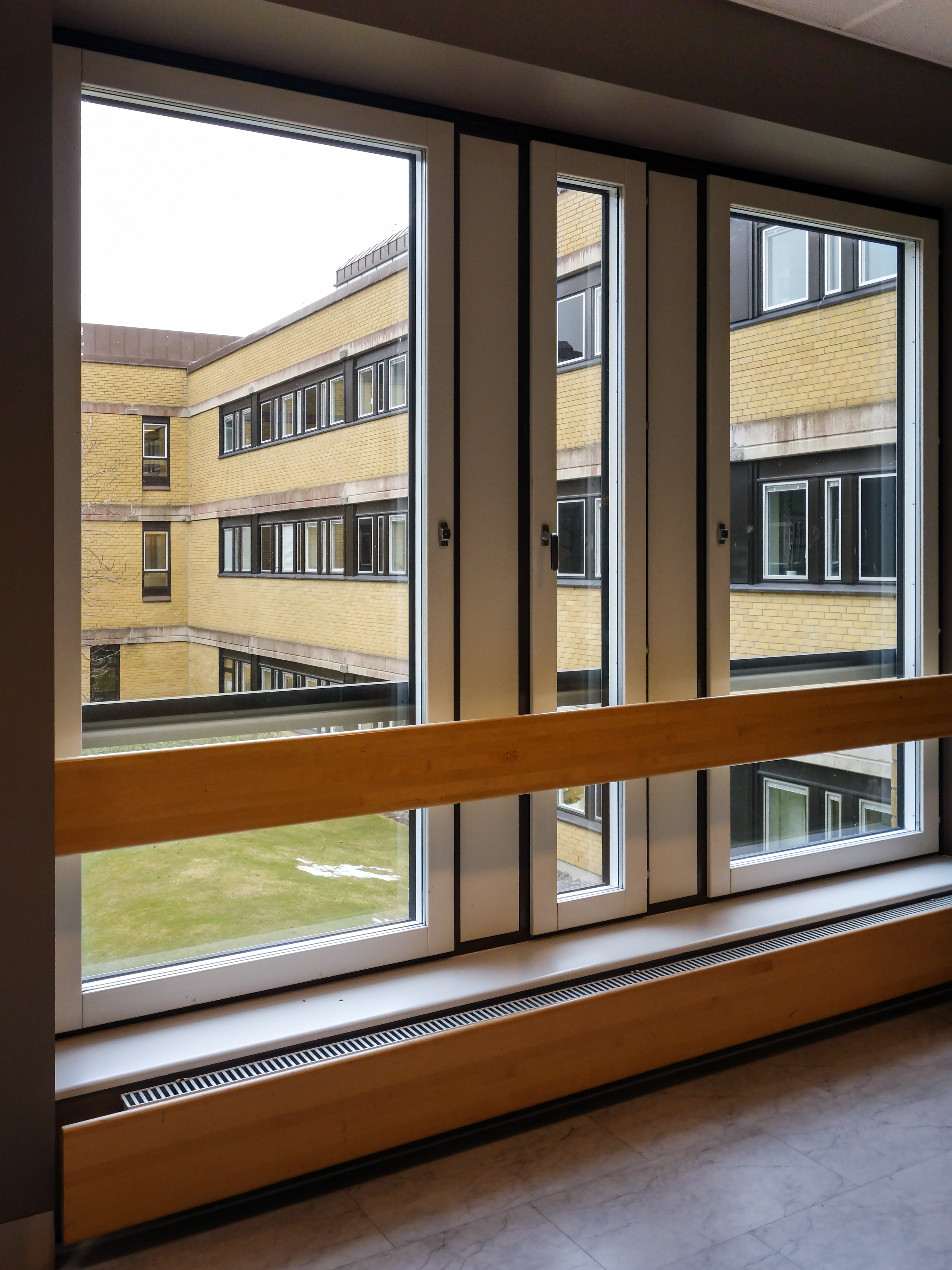 One of the yards as seen through a window on the second level in Norra Älvsborgs Länssjukhus (Northern Älvsborg county hospital) - NÄL, Trollhättan, Sweden.